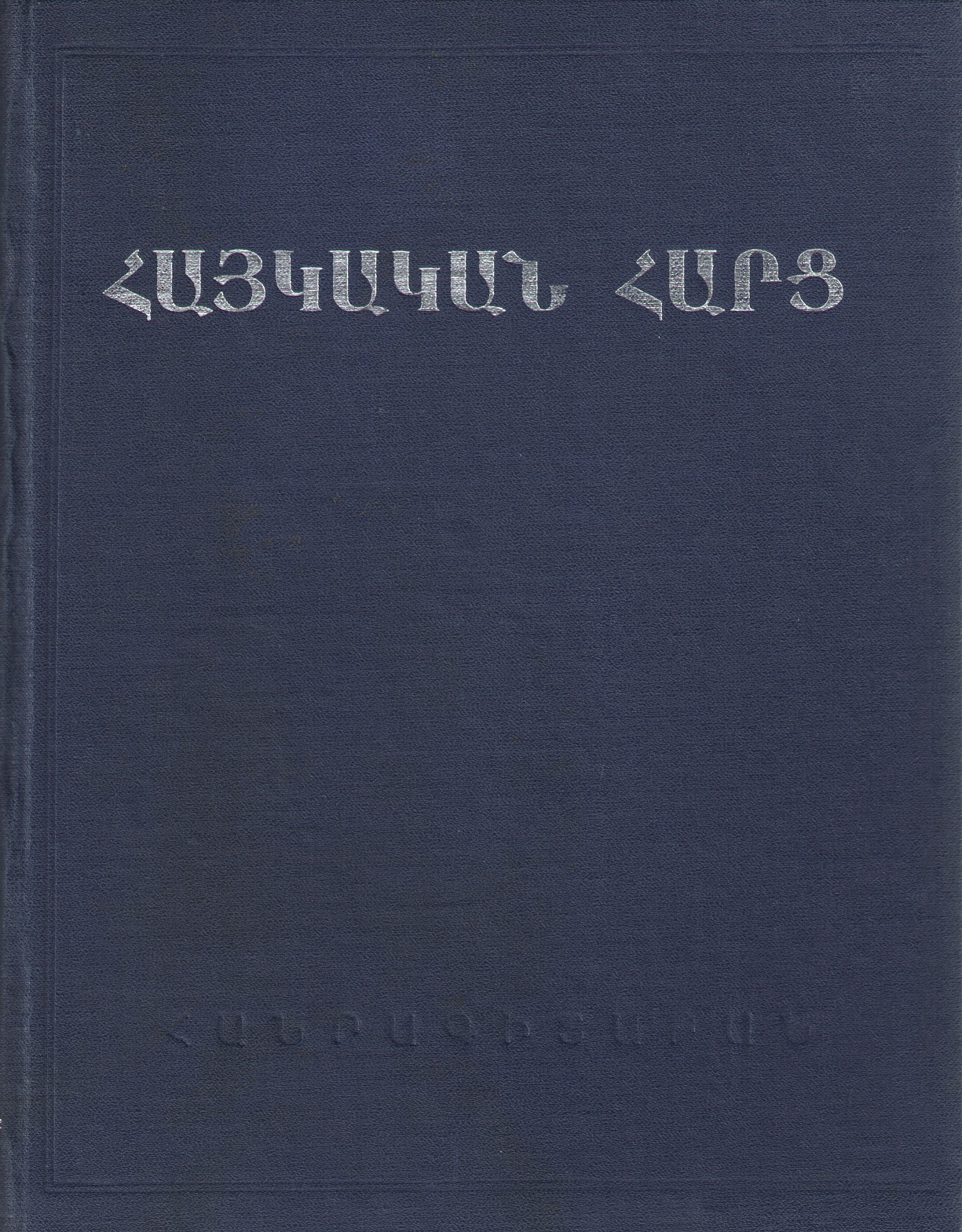 The cover of the Armenian question encyclopedia.